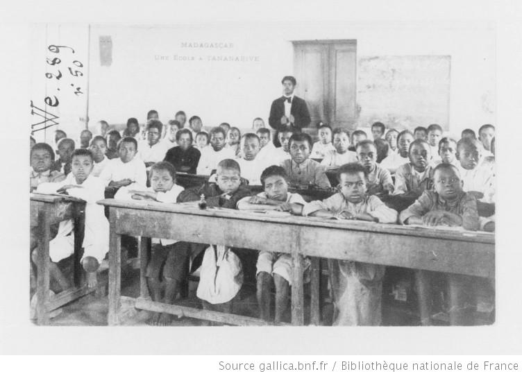 Primary school in colonial Antananarivo, Madagascar (1908)